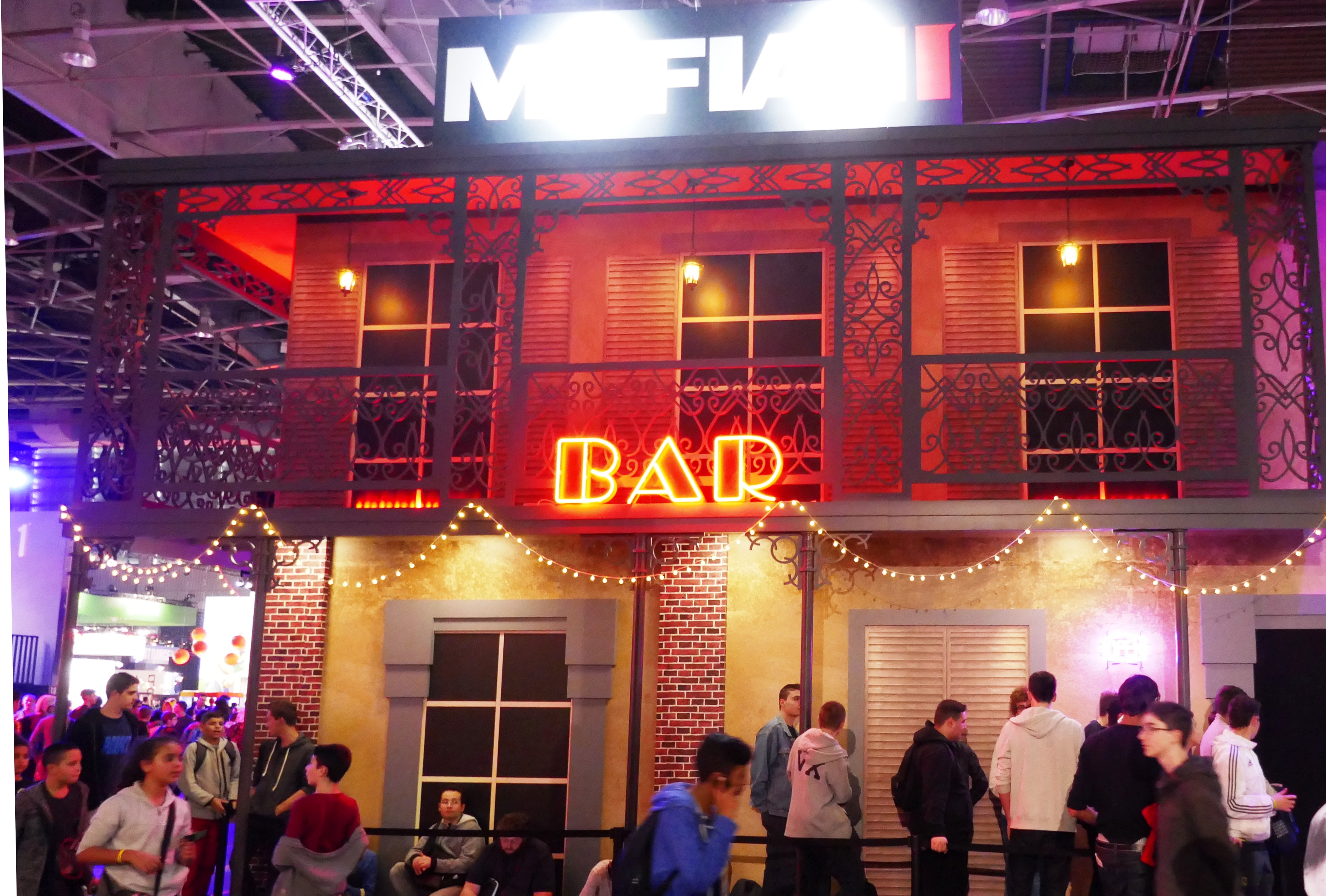 Mafia III Stand - Paris Games Week 2016